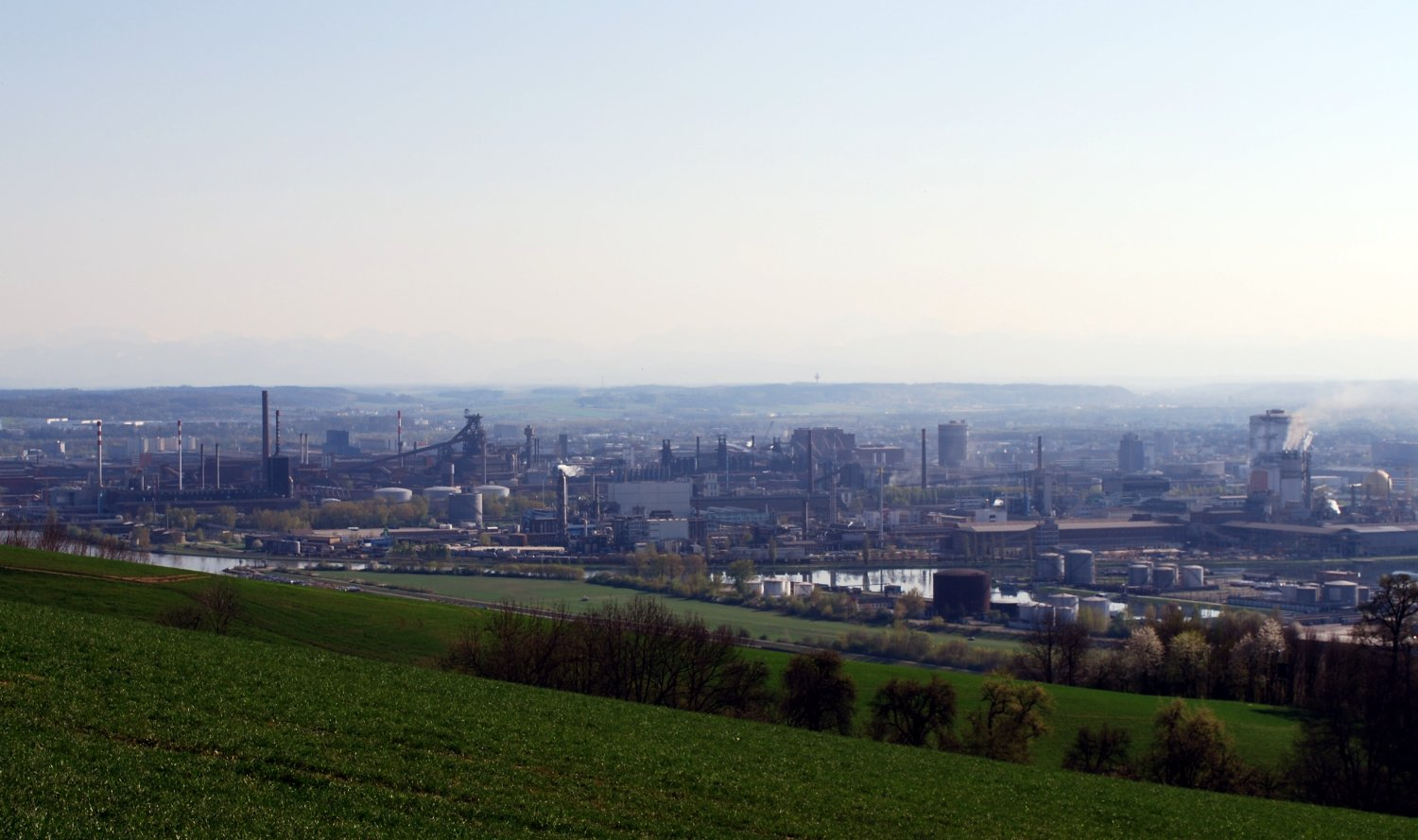 Steel mill "voestalpine" in Linz, Austria